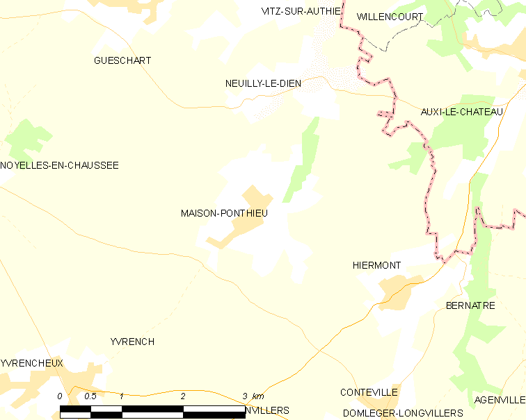 Map of French municipality Maison-Ponthieu